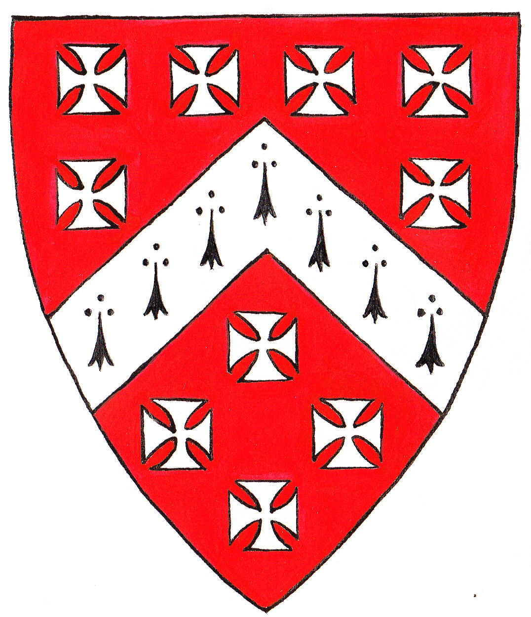 Armorials of Berkeley of Stoke Gifford, Gloucestershire: Gules, a chevron ermine between ten crosses pattee argent. These arms may be seen in The Gaunts Chapel, Bristol. Blazon quoted in: Barker, W.R. St Mark's or The Mayor's Chapel, Bristol, Formerly called the Church of the Gaunts. Bristol, 1892, p.148. These arms are the arms of the Barons Berkeley with the difference of a chevron ermine in place of a chevron argent.